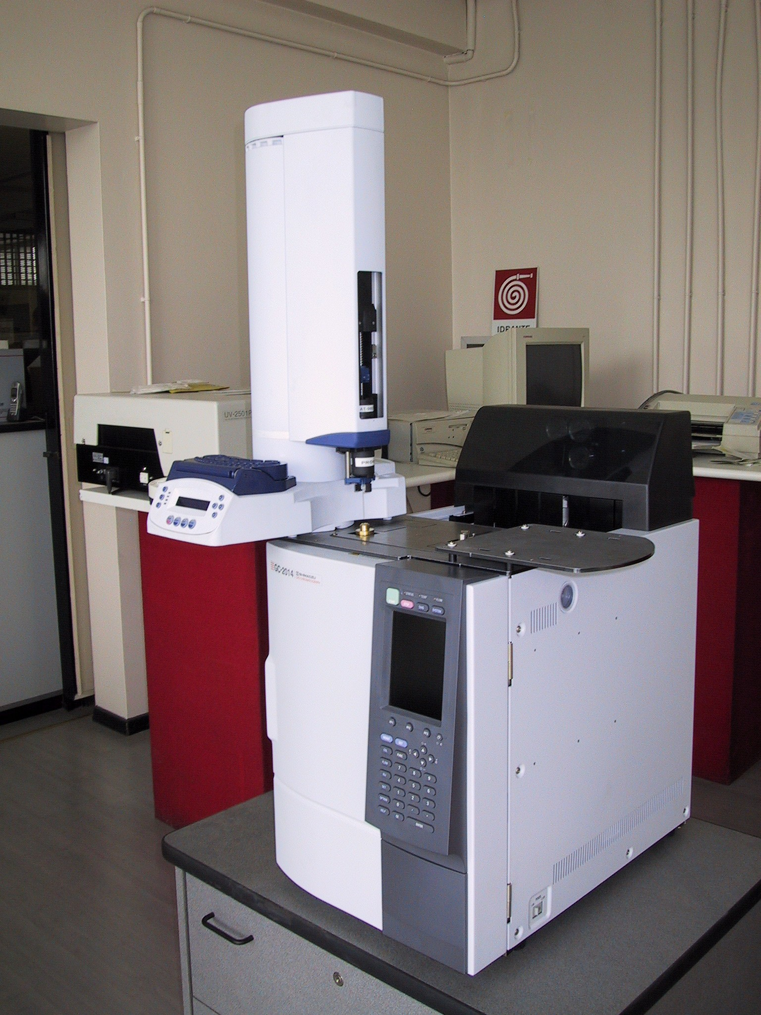 GC rule of 1/10, photoshop drawing